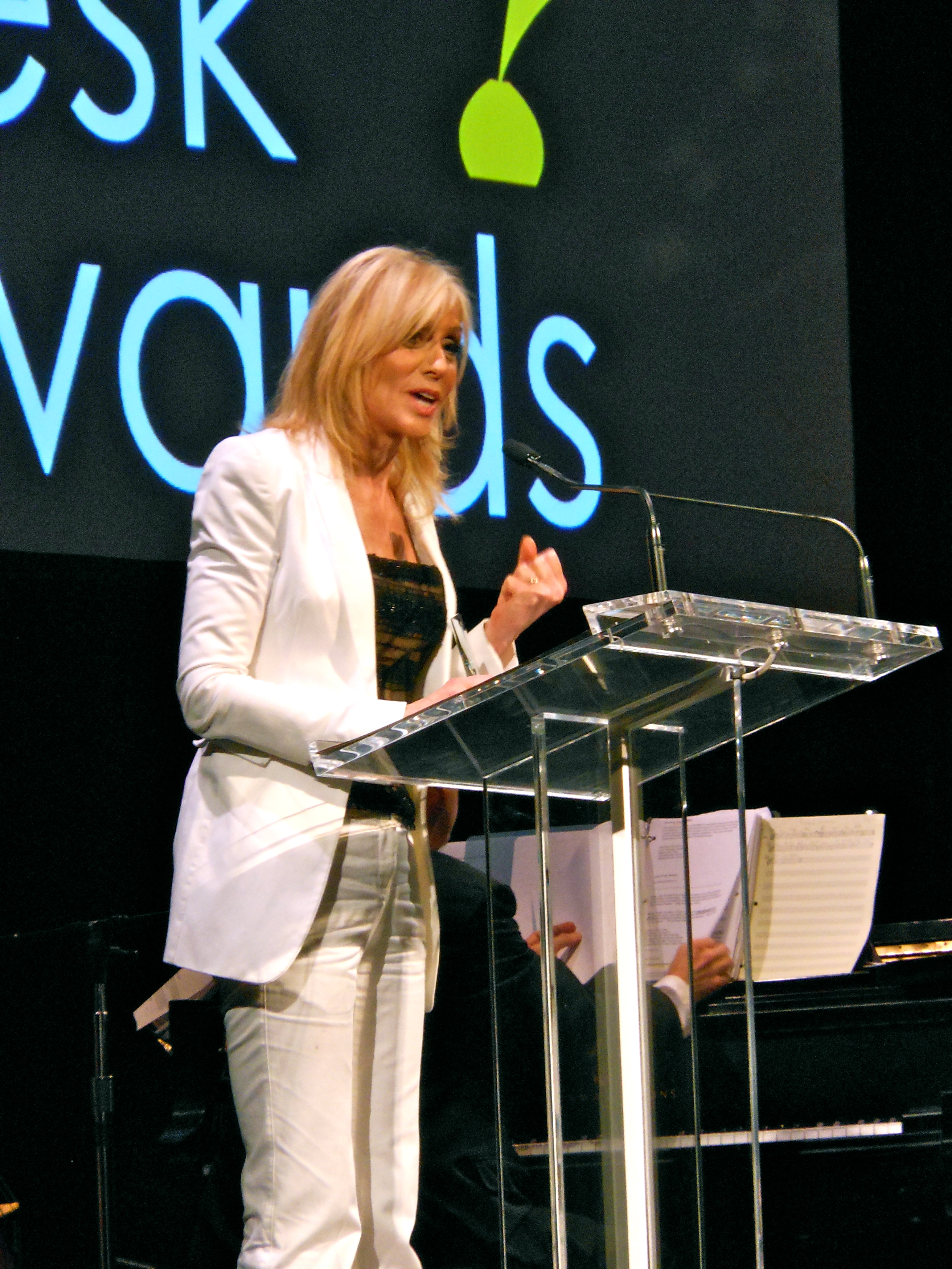 The Town Hall. NYC. Sunday, June 3rd, 2012.